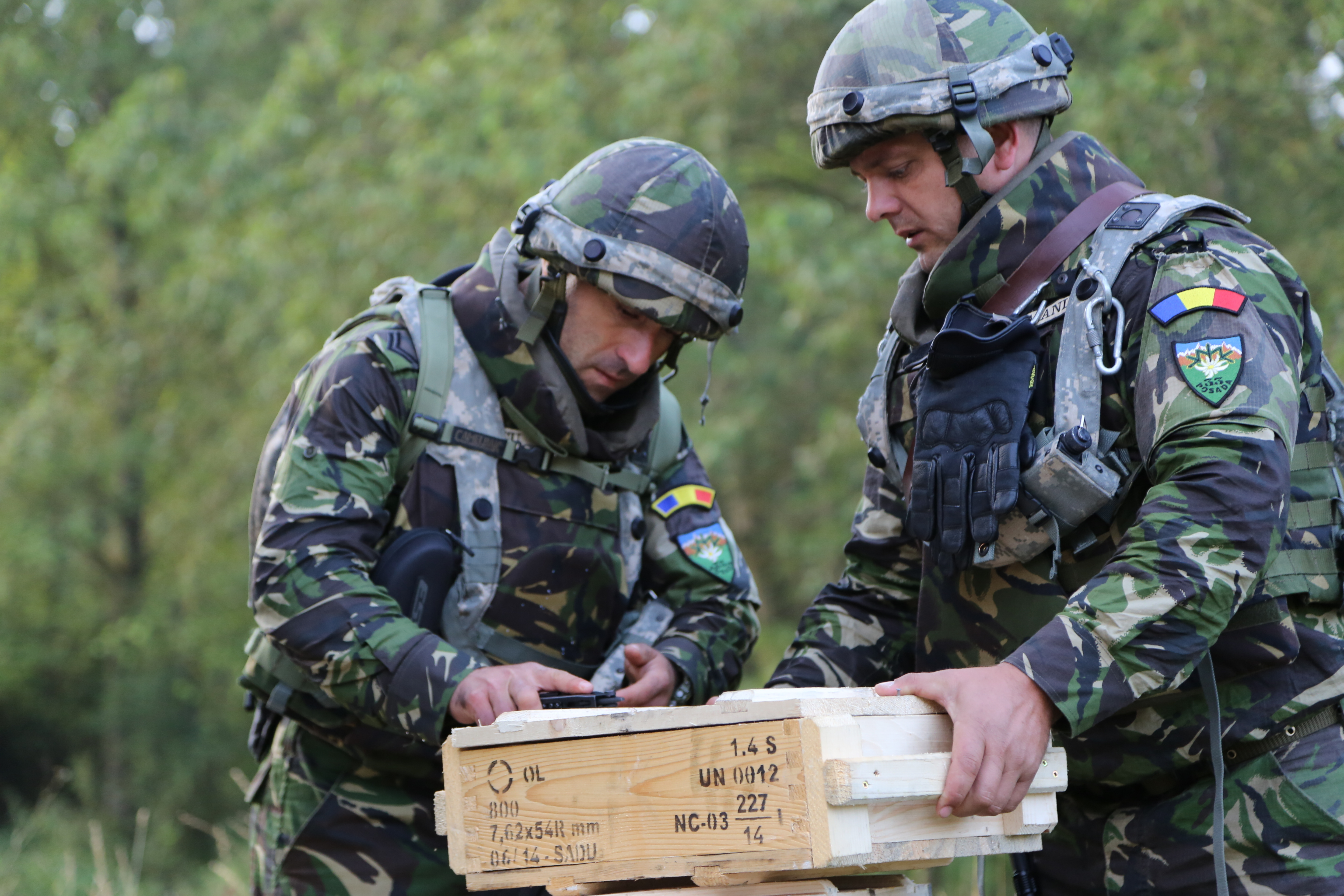 Romanian soldiers of the 3rd Company, 33rd Mountain Battalion, 2nd Mountain Brigade inspect ammo crates before the start of exercise Combined Resolve VII at the U.S. Army’s Joint Multinational Readiness Center in Hohenfels, Germany, Sept. 3, 2016. Combined Resolve VII is a 7th Army Training Command, U.S. Army Europe-directed exercise, taking place at the Grafenwoehr and Hohenfels Training Areas, Aug. 8 to Sept. 15, 2016. The exercise is designed to train the Army’s regionally allocated forces to the U.S. European Command. Combined Resolve VII includes more than 3,500 participants from 16 NATO and European partner nations. (U.S. Army photo by Pvt. Keion Jackson) Unit: VIPER COMBAT CAMERA USAREUR